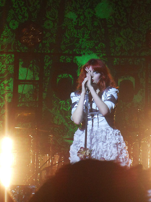 Florence + The Machine, Live at O2 Academy Brixton on 13/12/09.